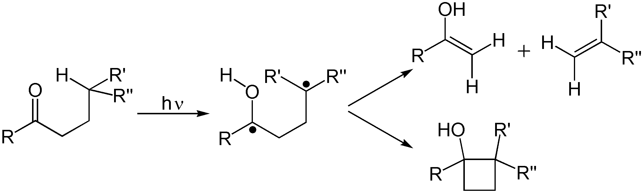 Norrish-Reaktion Typ II